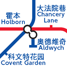 (Simplified Chinese version) How the Aldwych tube station may have looked on the London Underground Map if it was still open to passengers. (Image based on London Underground Map, created by User:McDRye on Feb 26th, 2006) Category: Disused London Underground station maps